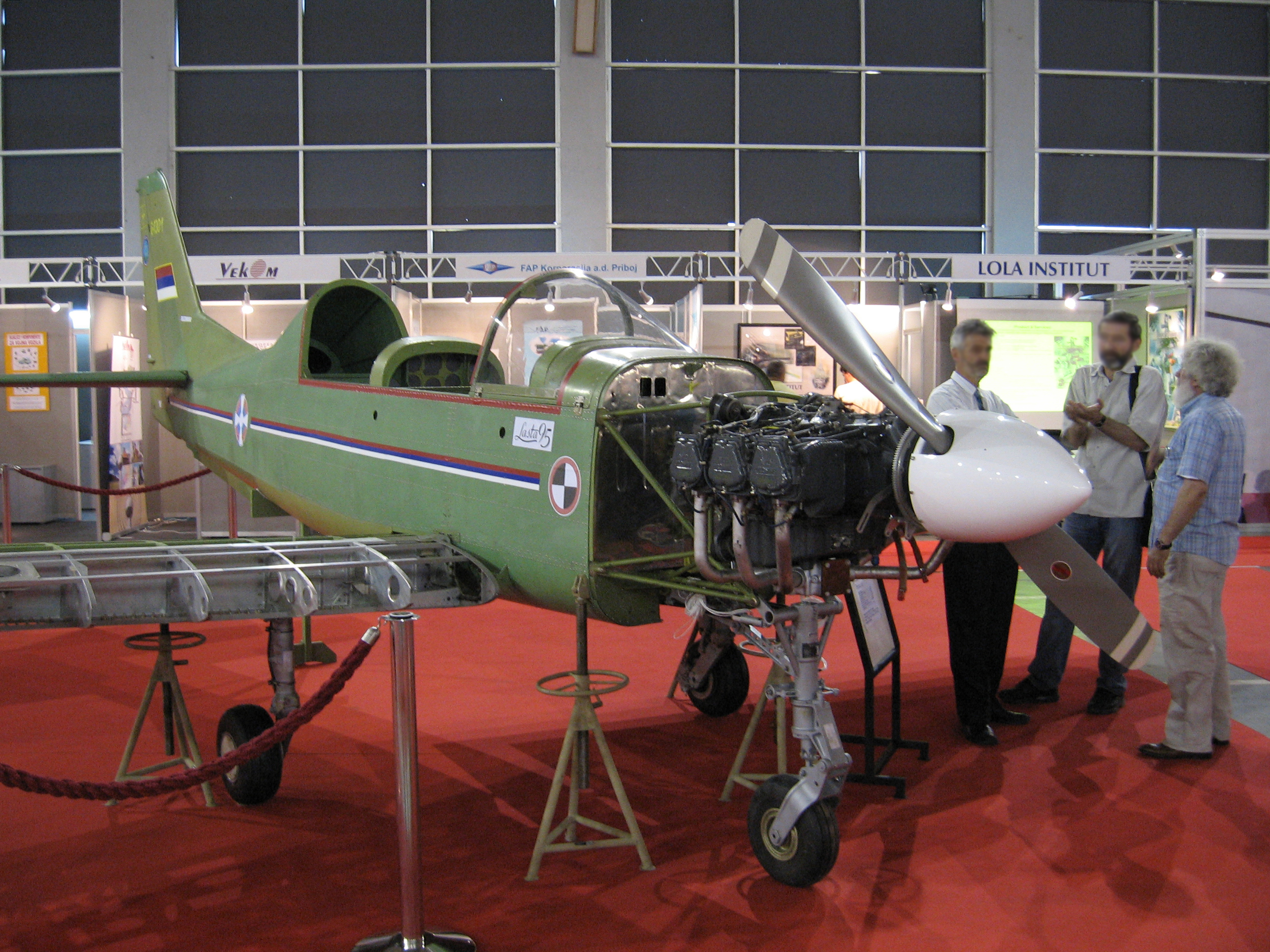 New Serbian tandem-seat low-wing trainer aircraft Lasta-95 developed by Utva Aircraft Factory. Picture taken at Belgrade Arms Fair “Partner 2007”.